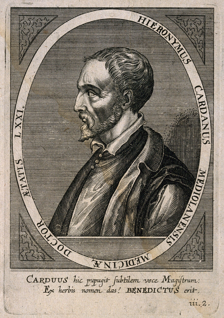 Jerome Cardan 1501-1576